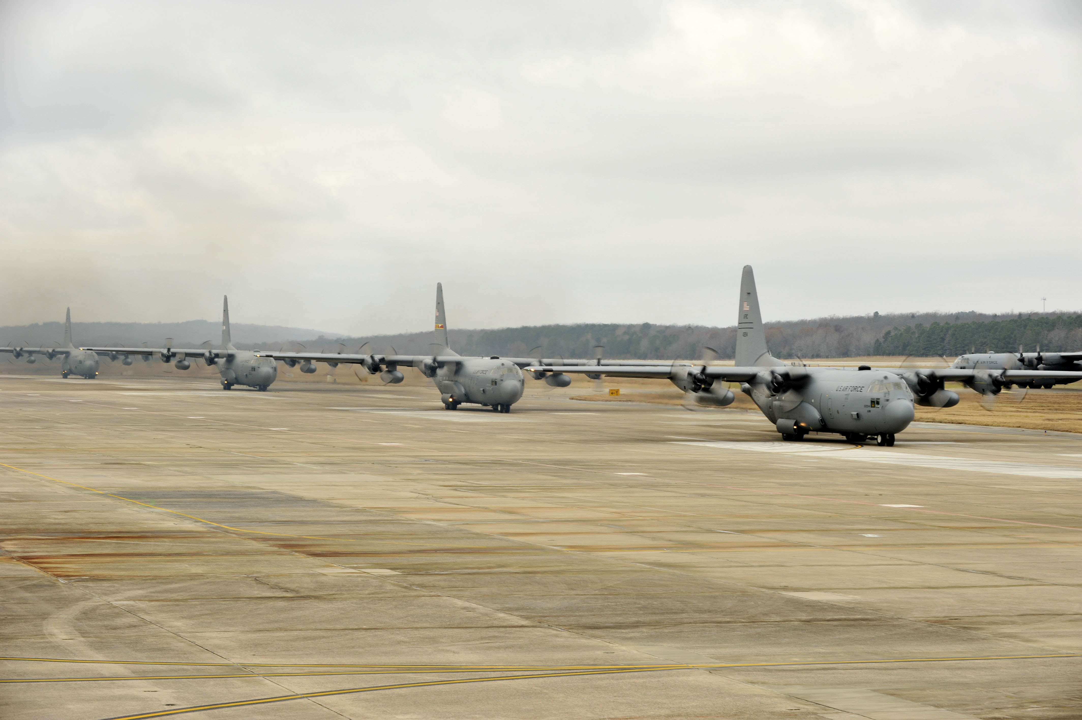 The 913th Airlift Group performs its first ever Total Force Integration four ship formation Dec. 2, 2014, at Little Rock Air Force Base. Members from the 50th and 327th Airlift Squadron used four Air National Guard planes to taxi and take off. (U.S. Air Force photo by Senior Airman Regina Agoha)